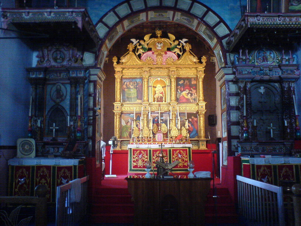 Kottayam Valiapally (Big church) belonging to Knanaya Jacobite Syrian Orthodox, Estd. in AD. 1550